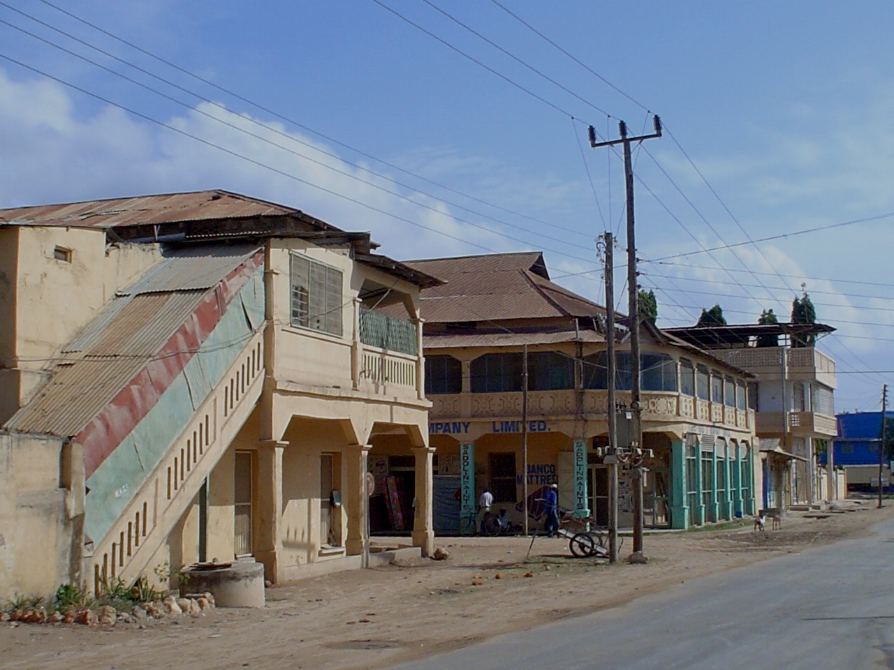 Scene on Ghana Street, Lindi's main street, Tanzania